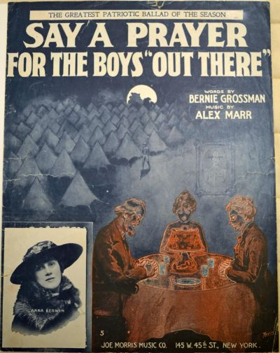 sheet music cover with inset photo of Anna Kerwin